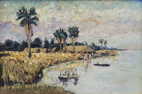 Isle of Mate (Congo Free State)